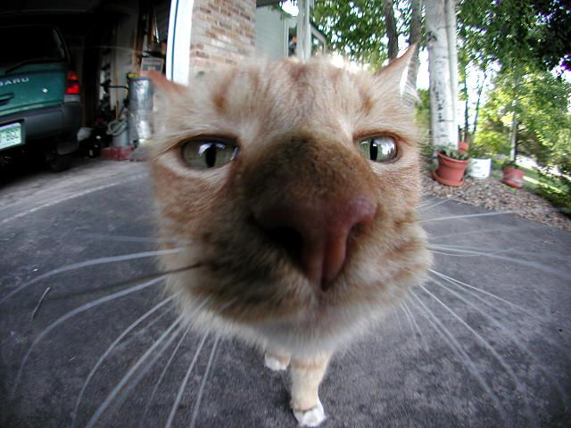 This is a home made photo of a cute cat.